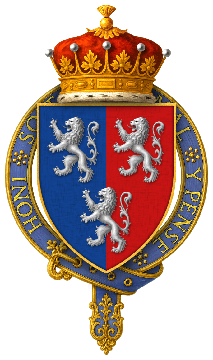 Shield of arms of George Herbert, 11th Earl of Pembroke, KG, PC